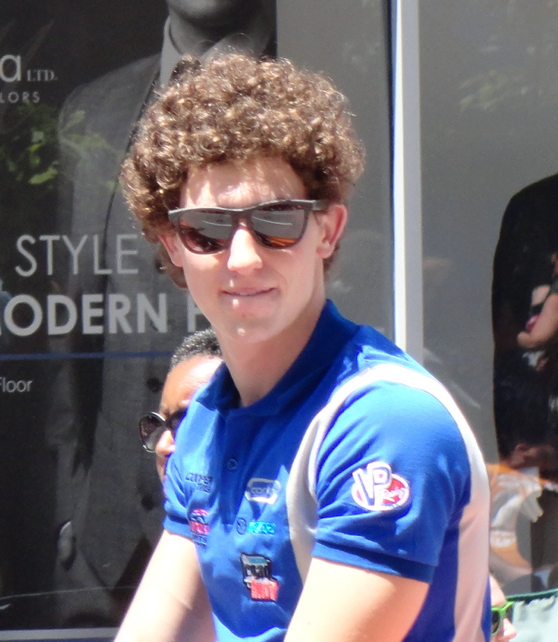 Matheus Leist, 2017 Indy Lights Freedom 100 winner, at the 2017 500 Festival Parade